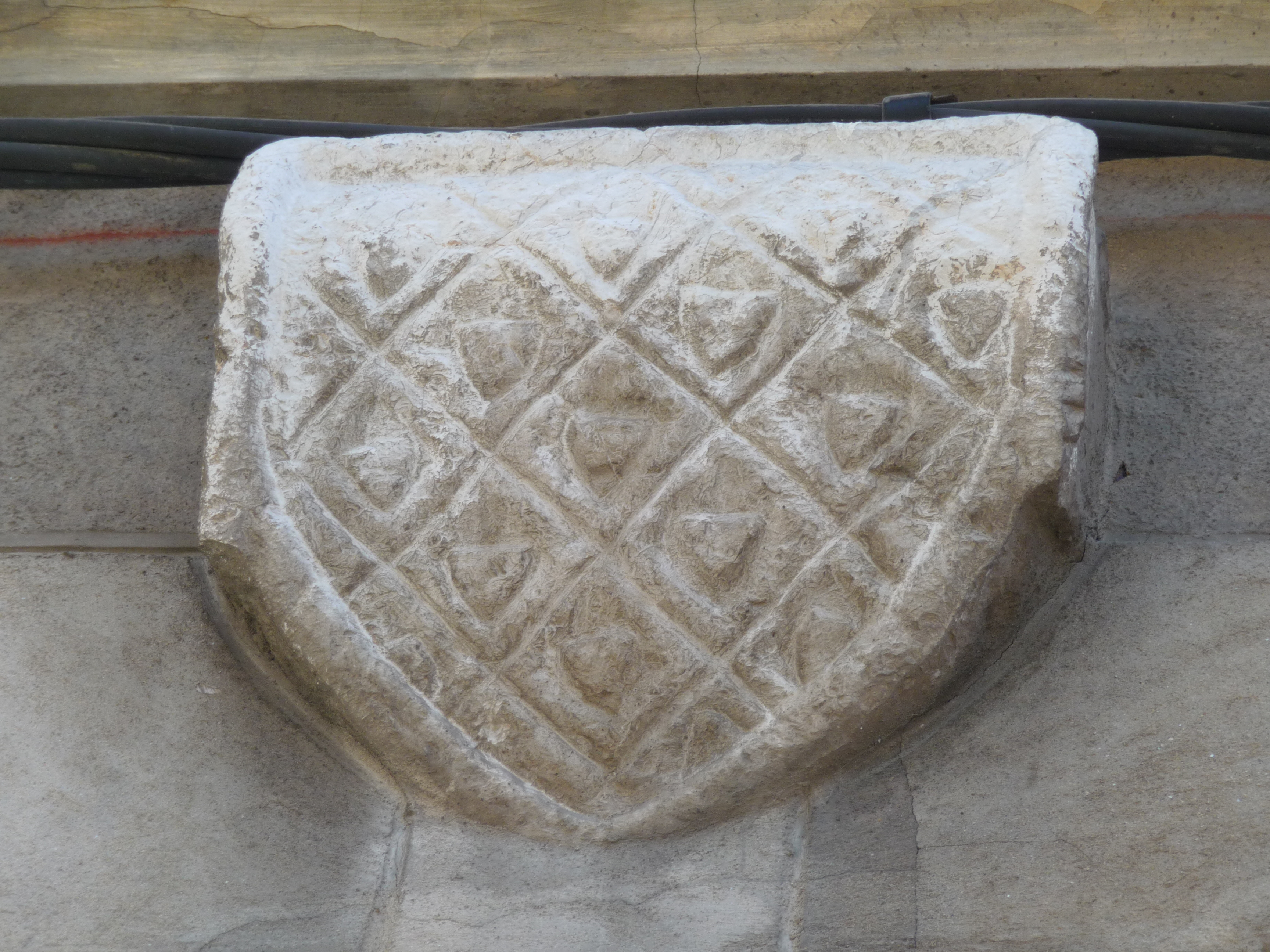 Coat of arm in front of the castle within walls of the Barons of Villeneuve,Vence, Alpes-Maritimes, France.